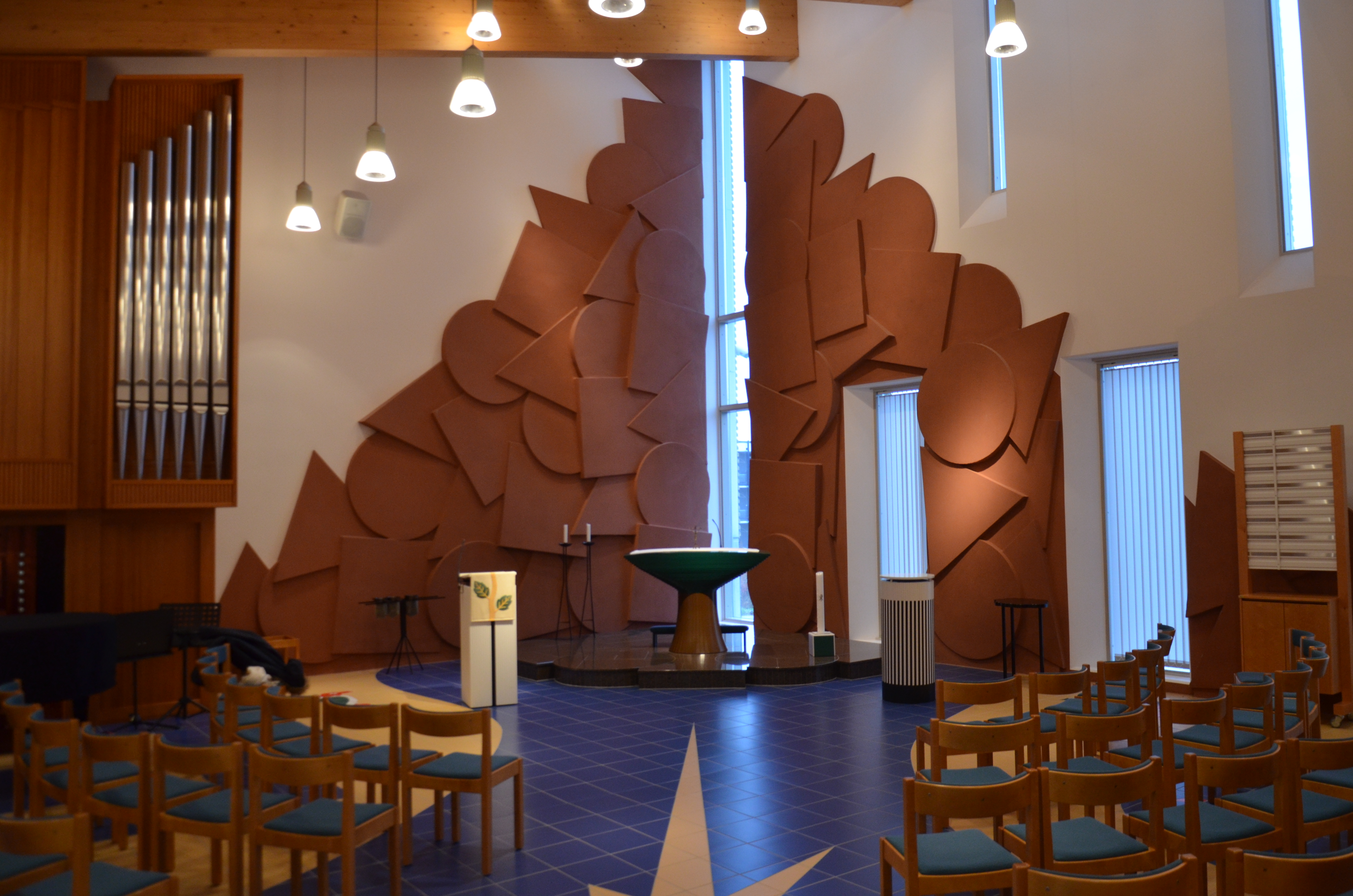 Masaby kyrka, Kyrklätts kommun